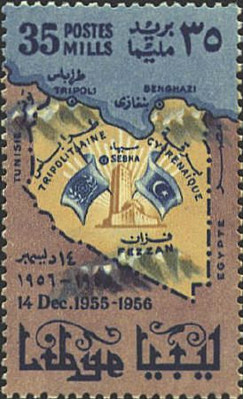 Express stamp 1956: A Postage Stamp Commemorating Libyan independent.